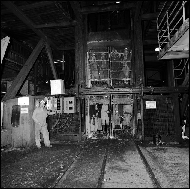 Miners in the cage ready for their descent. The cage had 3 tiers, but one has already gone under. The photograph was taken in the last week of production at Wearmouth Colliery before closure. Photographer: Les Golding, November 1993. Ref: colliery6 To see the full set: (Copyright) We're happy for you to share this digital image within the spirit of The Commons. Please cite 'Tyne & Wear Archives & Museums' when reusing. Certain restrictions on high quality reproductions and commercial use of the original physical version apply though; if you're unsure please . To purchase a hi-res copy please quoting the title and reference number.